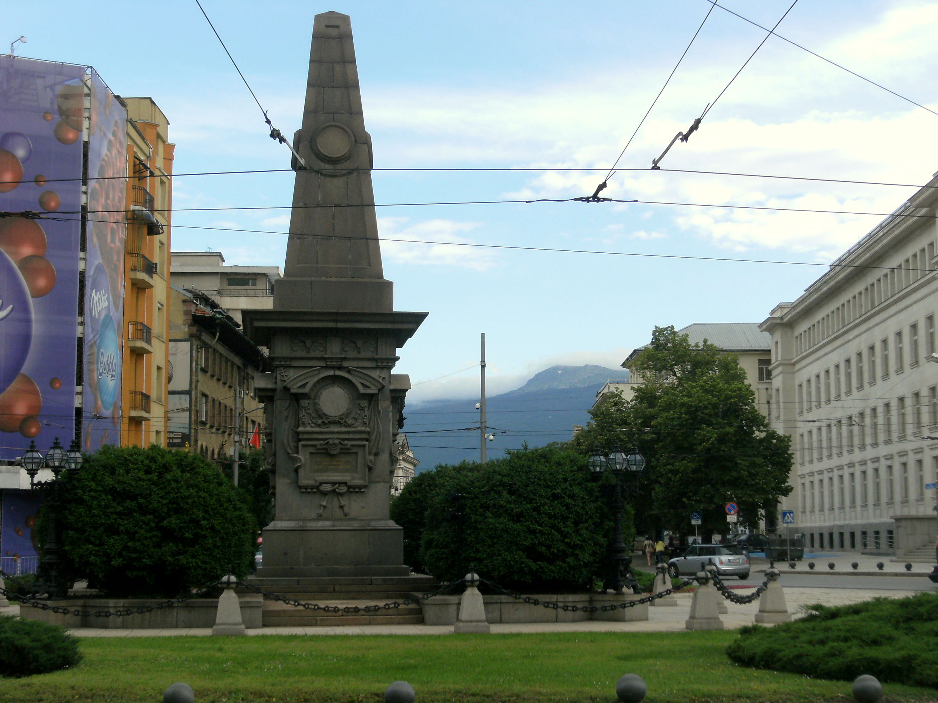 2014-06-17 in Sofia.